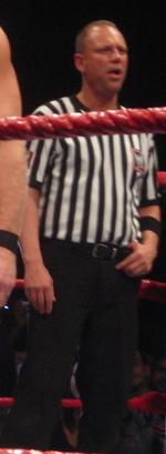 cropped from Andrea90's Milan Chris Jericho